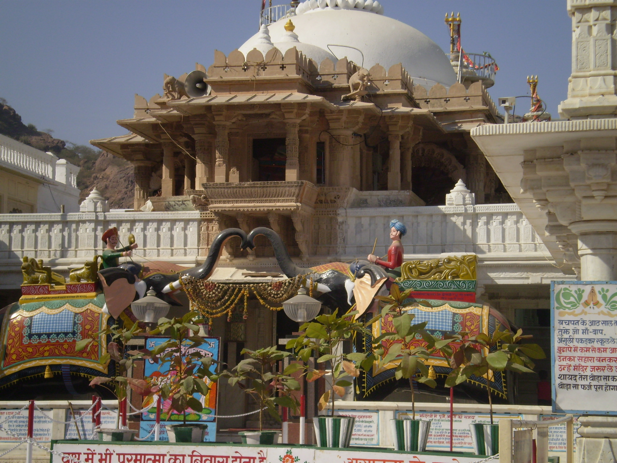 KALPESH,Nakoda Tirath, Photo click by me while i visit Nakoda, hence not copyright issues are involved in this image.